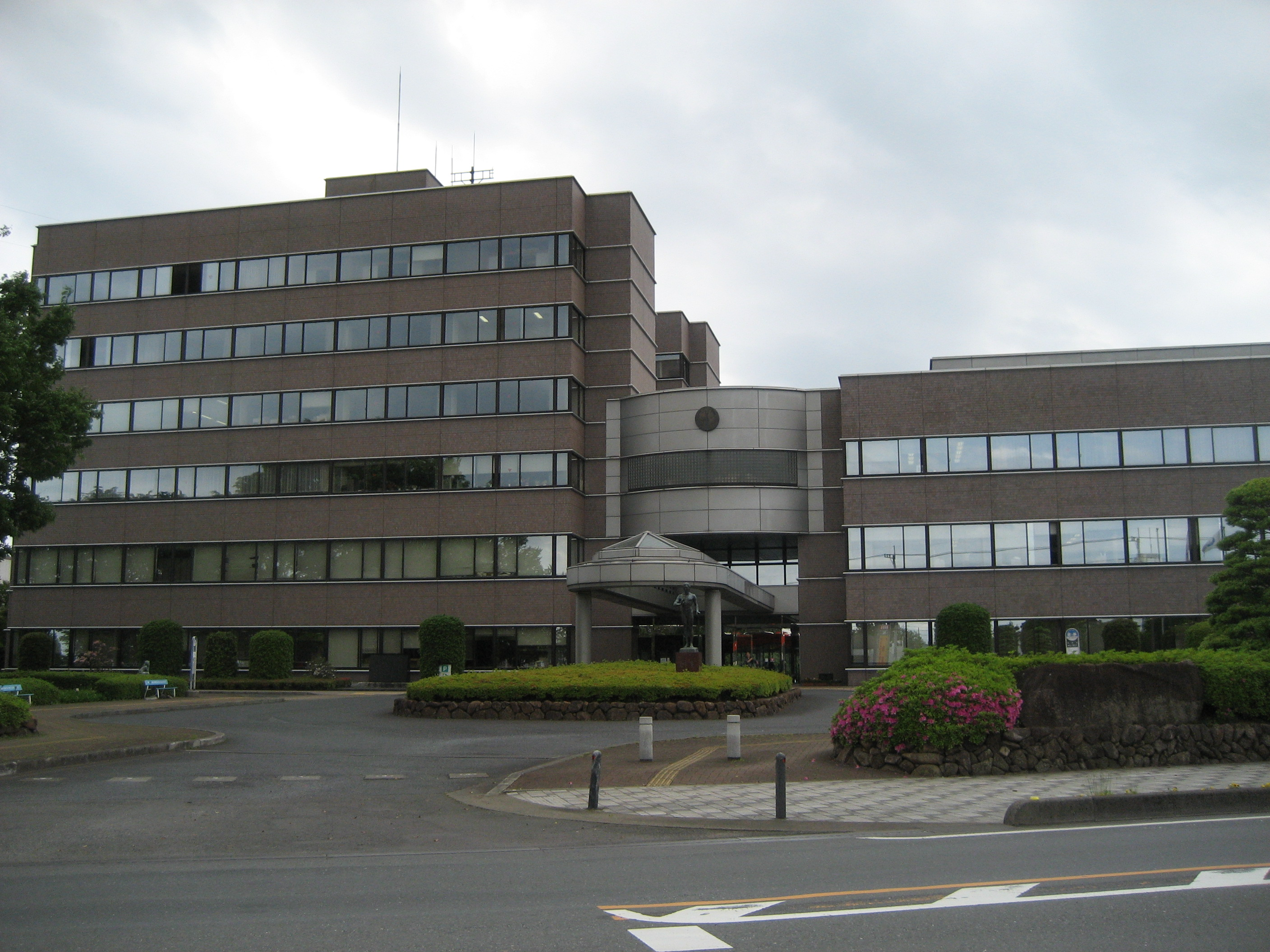 Tsurugashima City Office in Saitama Prefecture, Japan